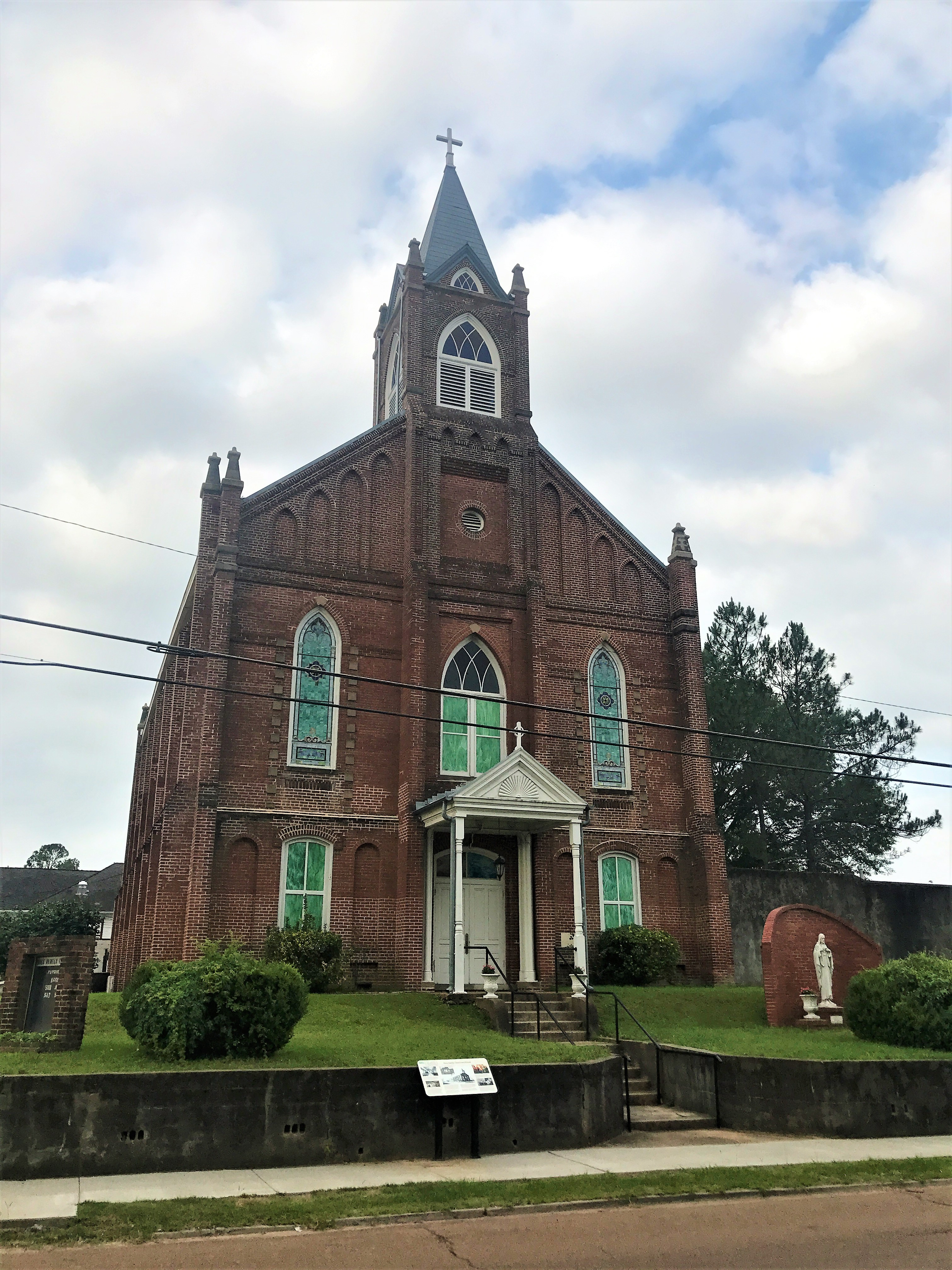 Main Church building built c. 1894. It was first Catholic church in the Mississippi valley with entire congregation of African-American descent.